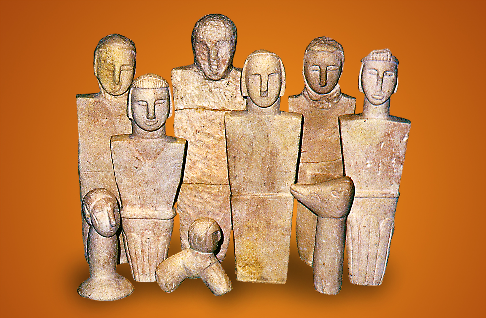 bâtons de Chaman de l'hypogée de Xaghra This media is about Maltese cultural property with inventory number 26.